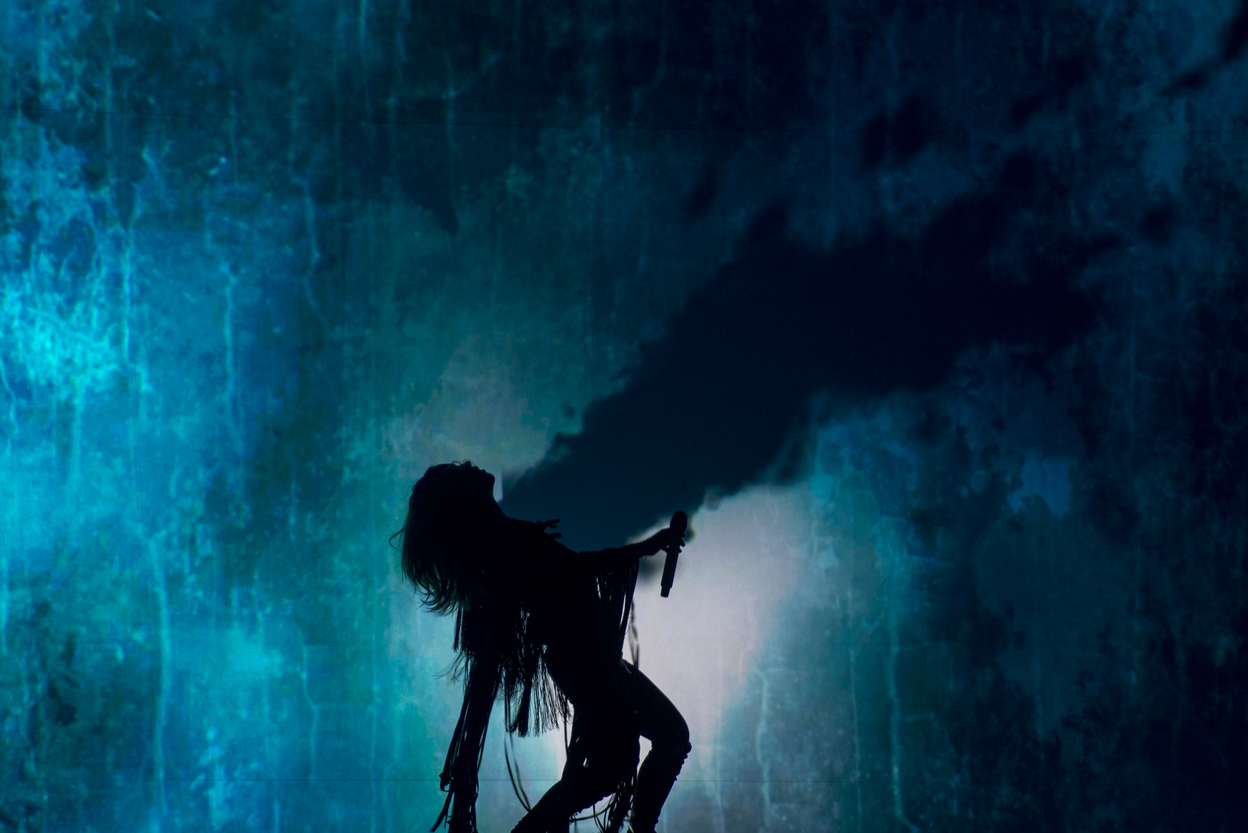 Greta Salóme representing Iceland with the song "Hear Them Calling" during a rehearsal before the first semi final of the Eurovision Song Contest 2016 in Stockholm. (Help translate this text)